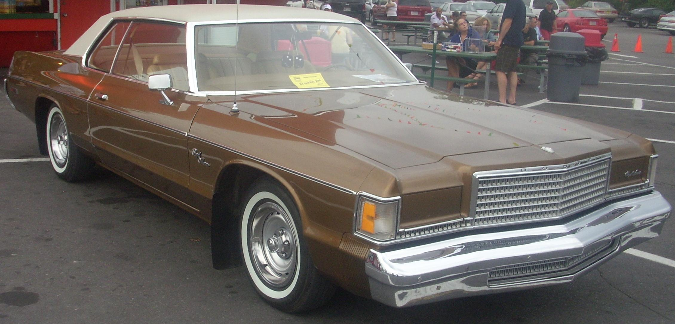 1976 Dodge Royal Monaco photographed in Montreal, Quebec, Canada at Gibeau Orange Julep.